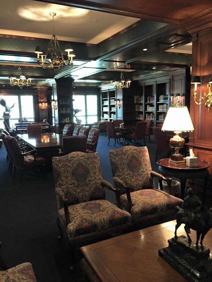 The Heritage Room on the campus of Hillsdale College. It is located within the Mosey Library.